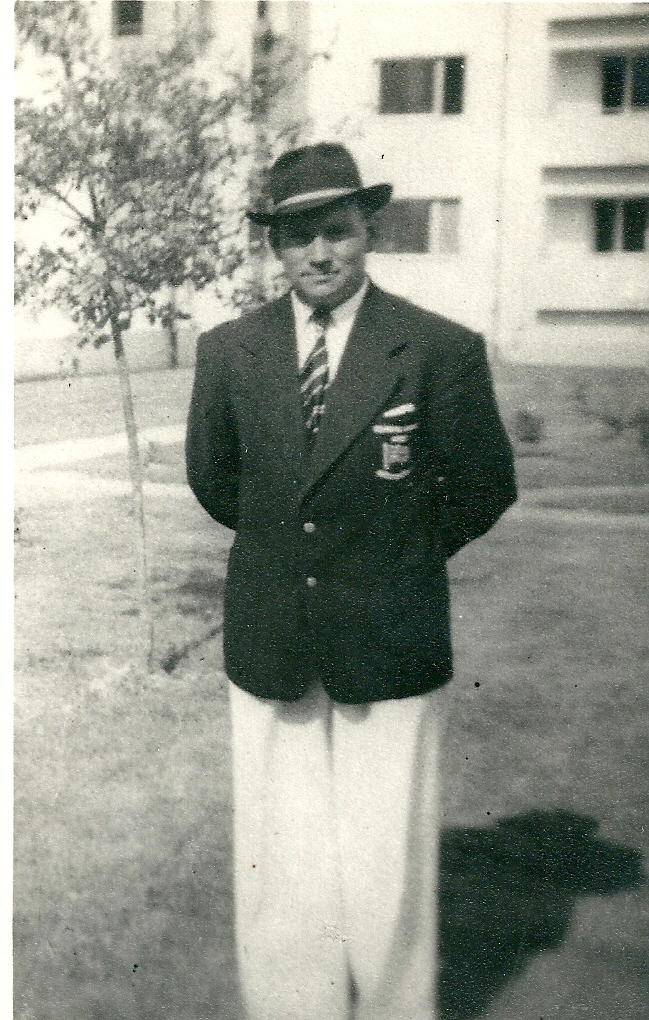 1948 London Olympics